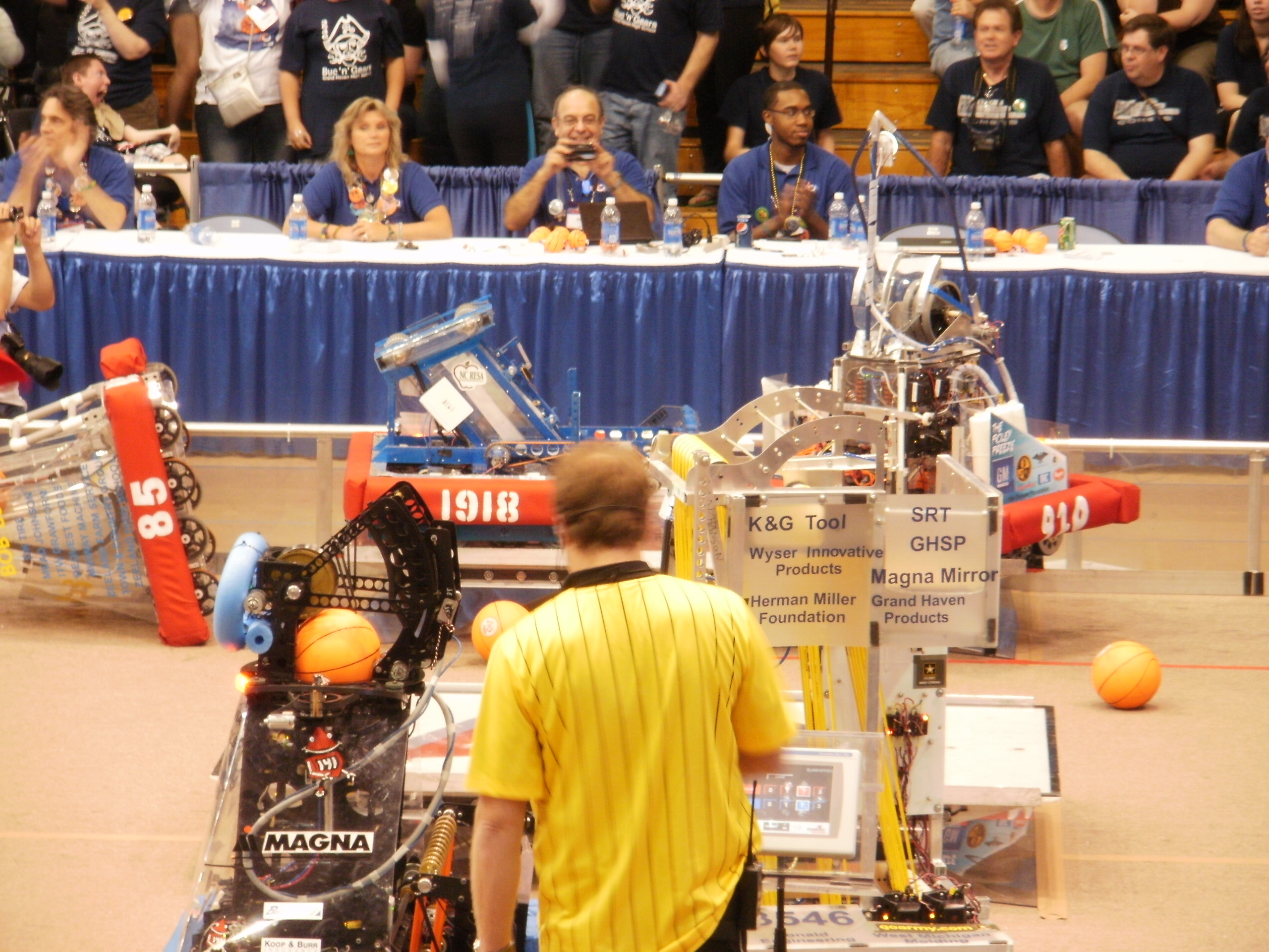 2012 FIRST Robotics Competition game Rebound Rumble showing teams 141 and 3546 balanced on the near bridge and a failed triple balance by teams 85, 1918, and 910. They successfully triple-balanced the previous two matches.